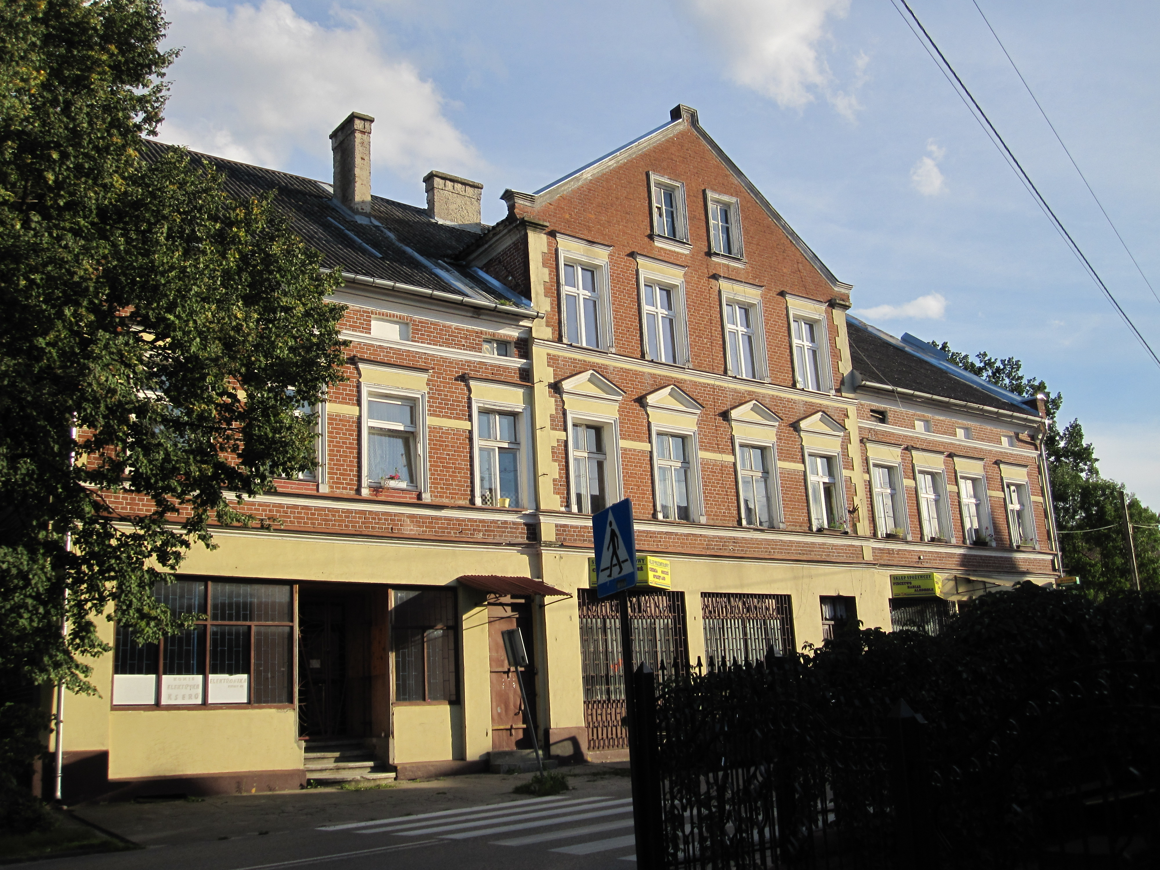 Building in Ukta